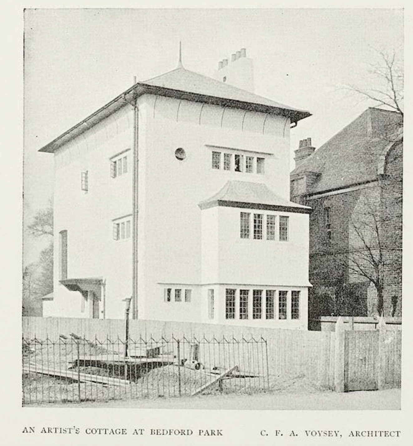 From The Studio, International Art Magazine. 1897